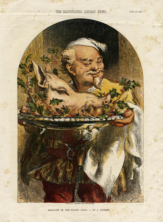 Coloured print of a man holding a boar's head on a platter.